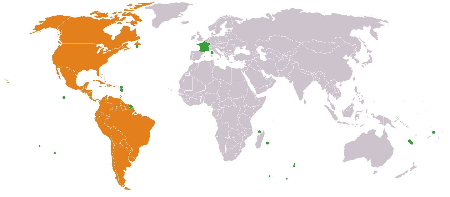 Map showing the location of the French Republic (green) and the Americas (orange)